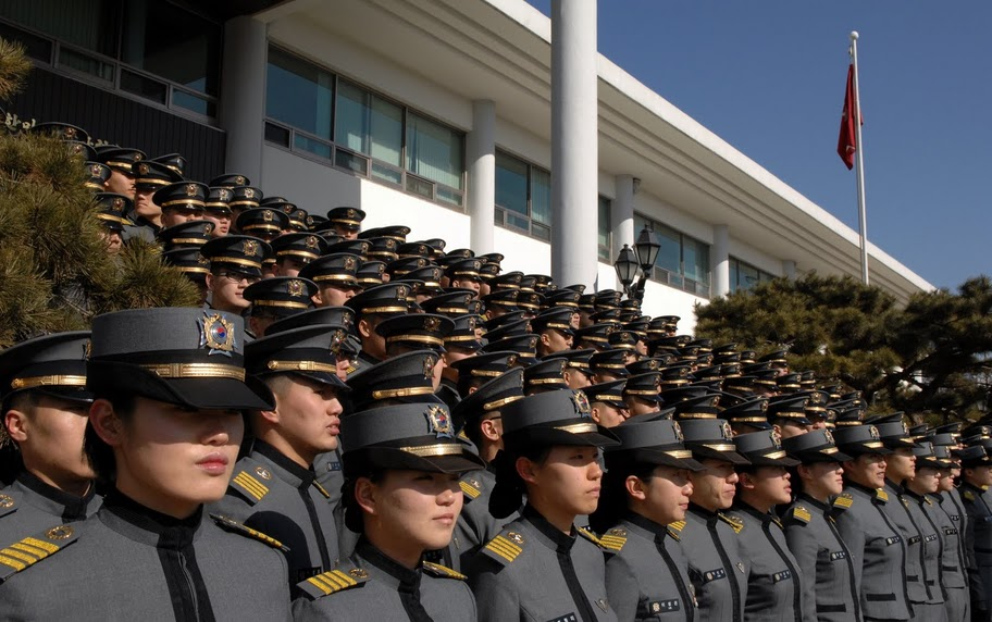 Photo by SSG Nicholas Salcido